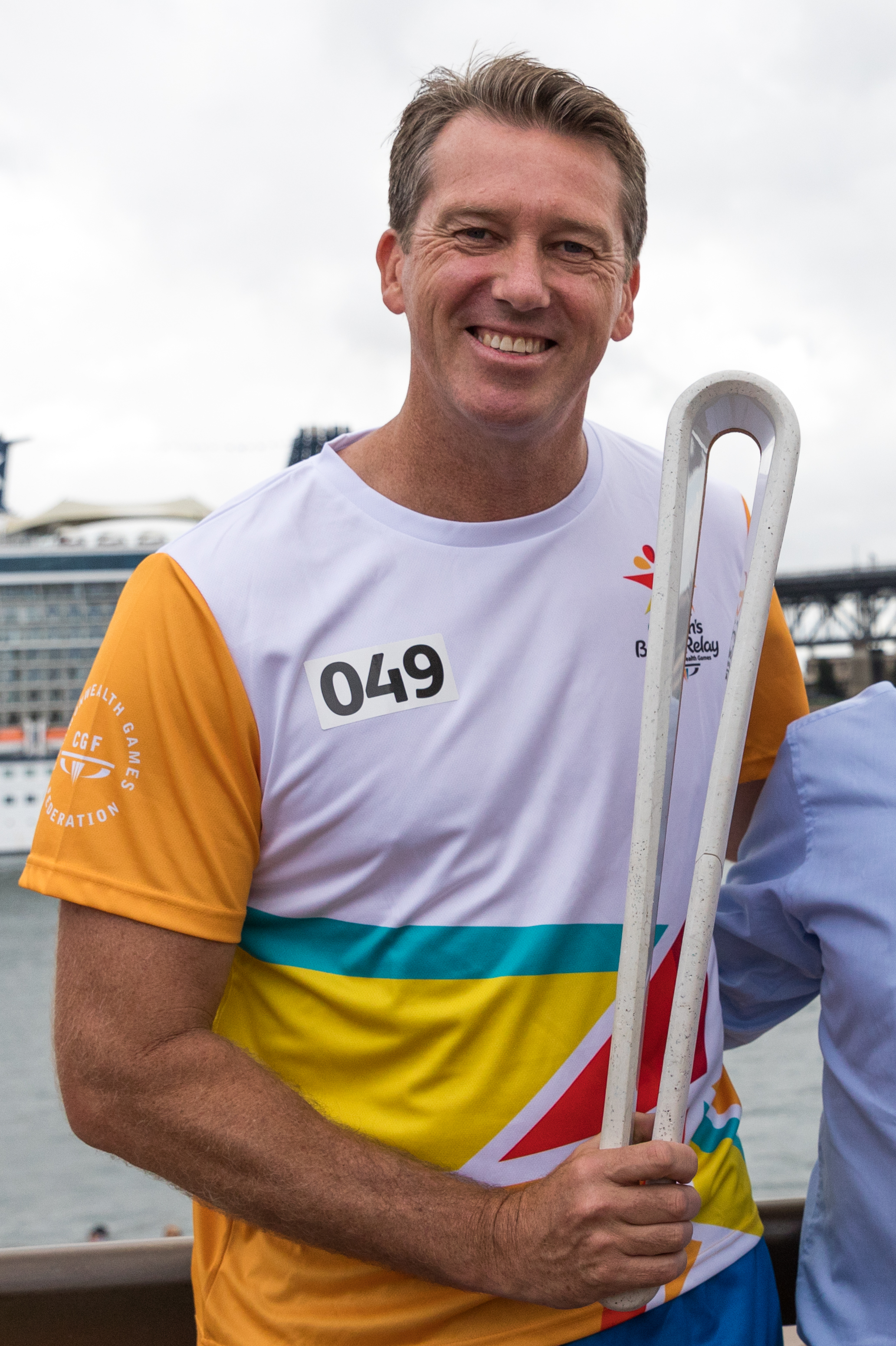 Athlete Glenn McGrath holds the Queen's Baton as part of a relay in Circular Quay, Sydney, Australia, ahead of the 2018 Commonwealth Games, being held on the Gold Coast.